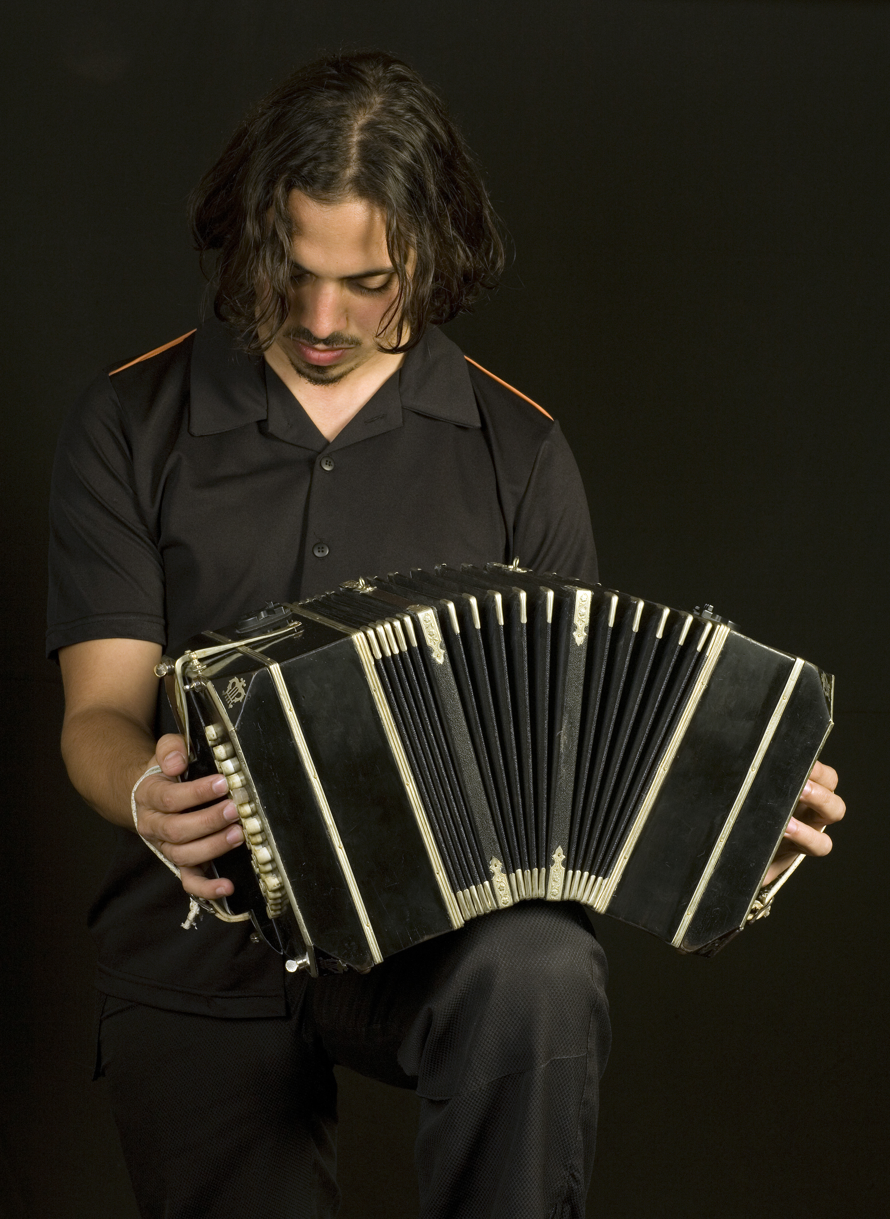 Matías Rubino, a bandoneon tango player. Buenos Aires, Argentina